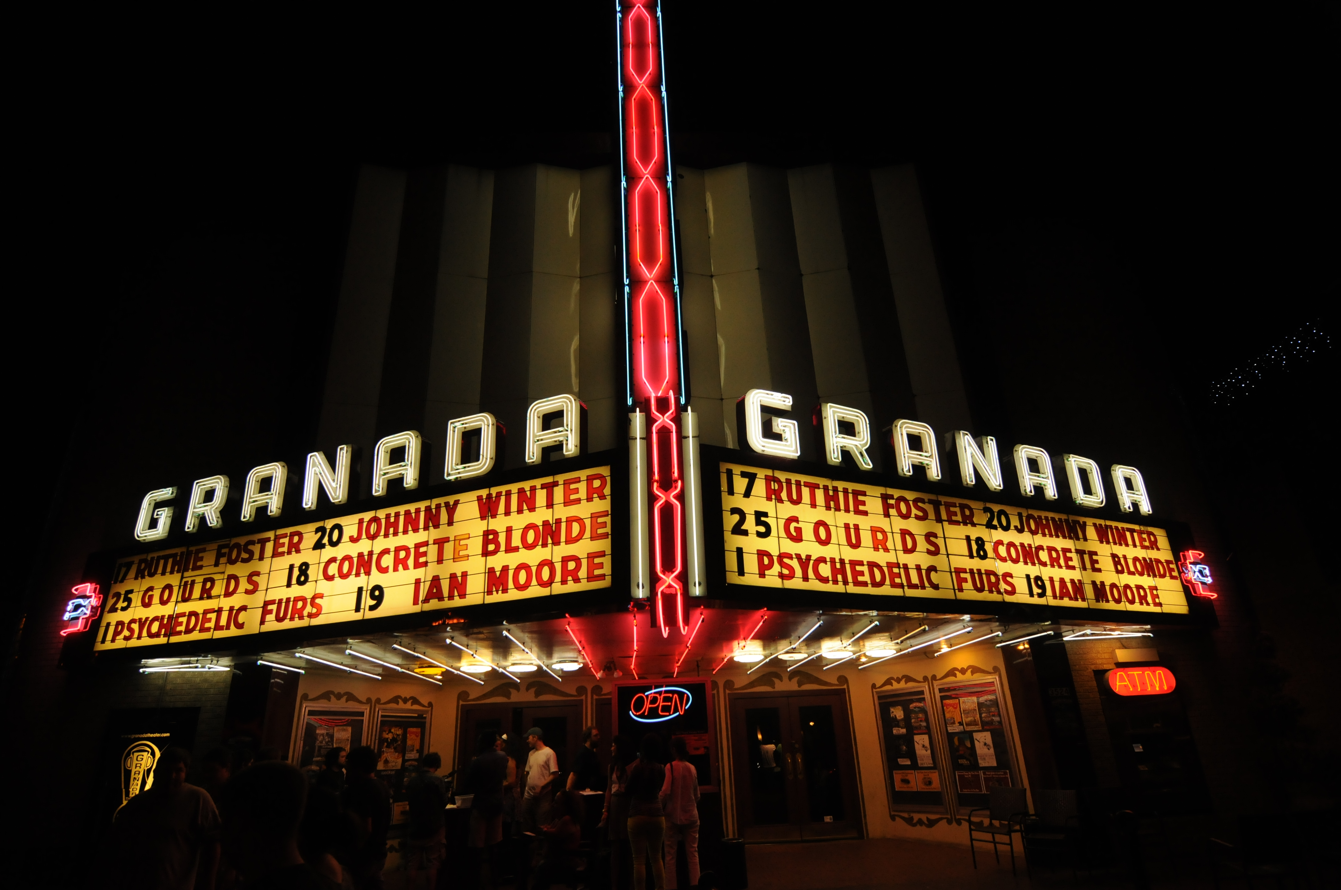 Marquee Night